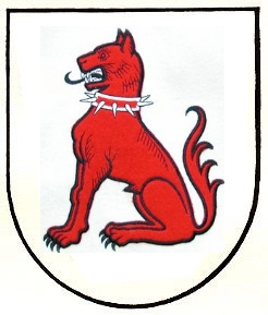 Zürich, Coast of arm : Gesellschaft zur Constaffel.